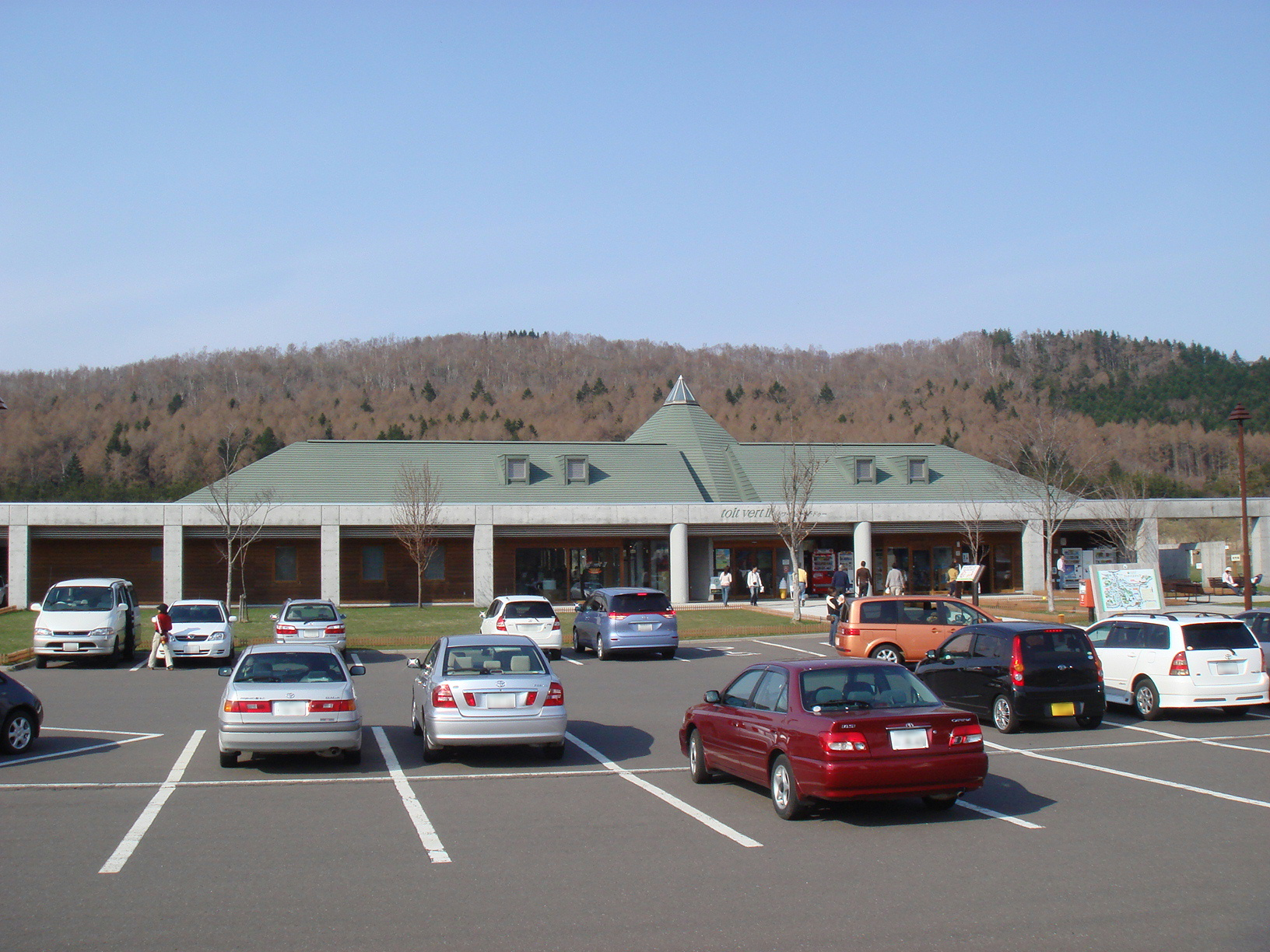 Michinoeki (Roadside Station) Kuromatsunai in Kuromatsunai Town, Hokkaido, Japan